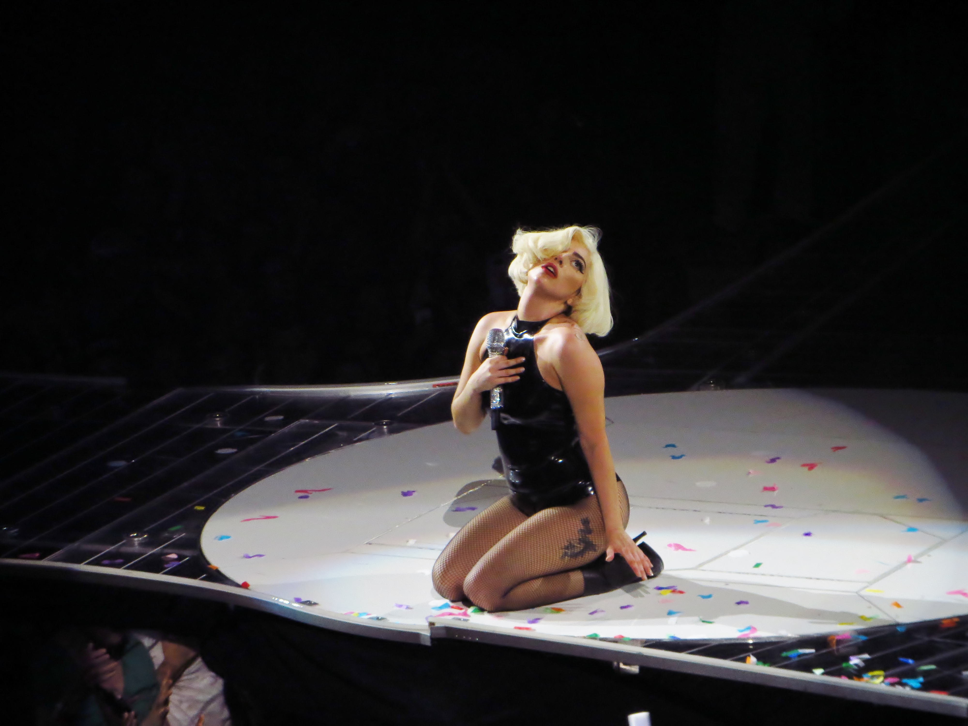 Lady Gaga, ARTPOP Ball Tour, Bell Center, Montréal, 2 July 2014 (59) Gaga performing on ArtRave: The Artpop Ball tour